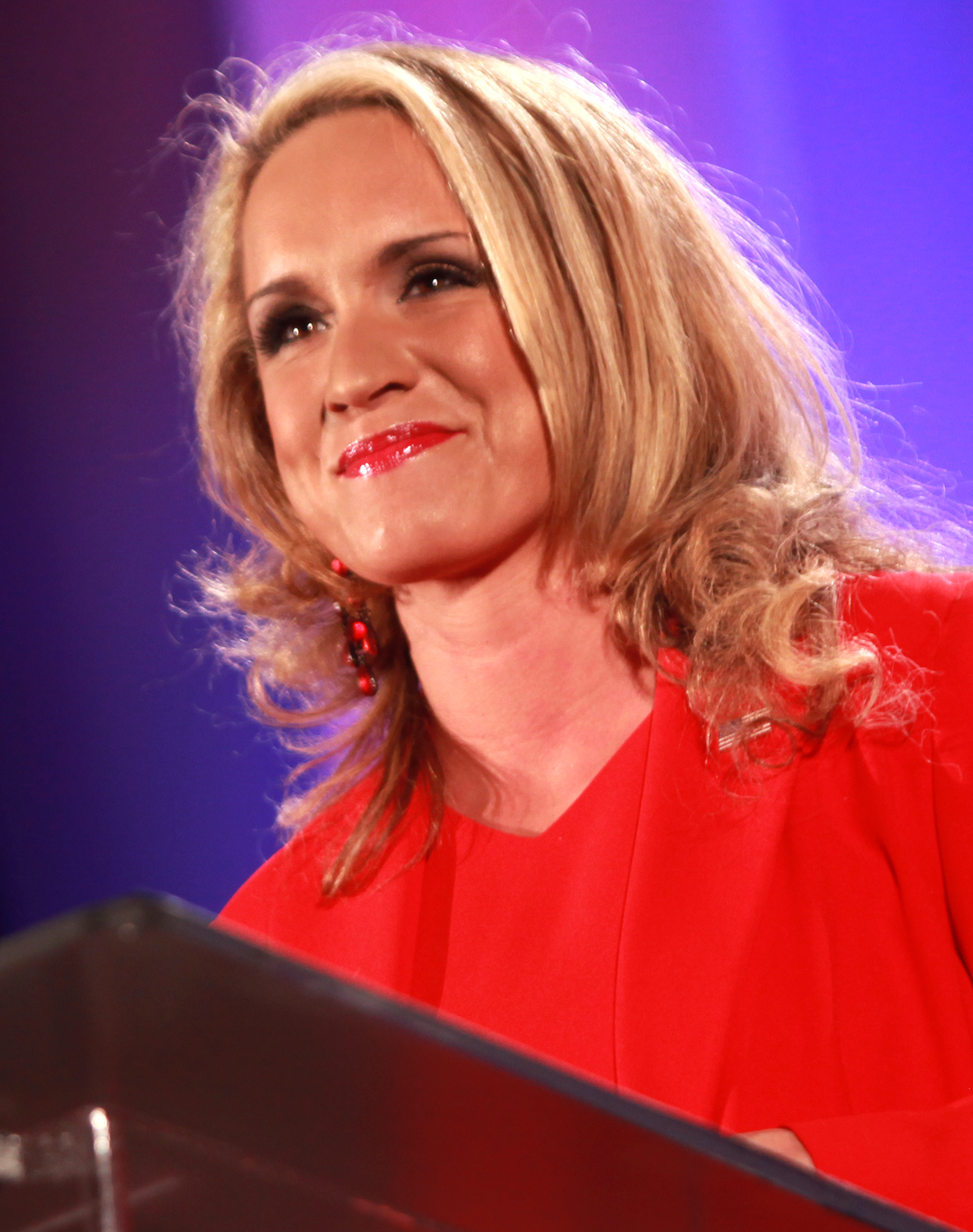 Scottie Nell Hughes speaking at the 2014 Western Conservative Conference at the Phoenix Convention Center in Phoenix, Arizona. Copyright © Western Center for Journalism/Gage Skidmore.